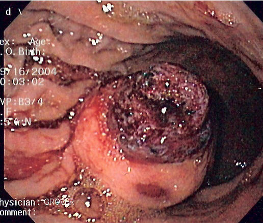 Endoscopic image of gastrointestinal stromal tumor with overlying clot seen in fundus of stomach